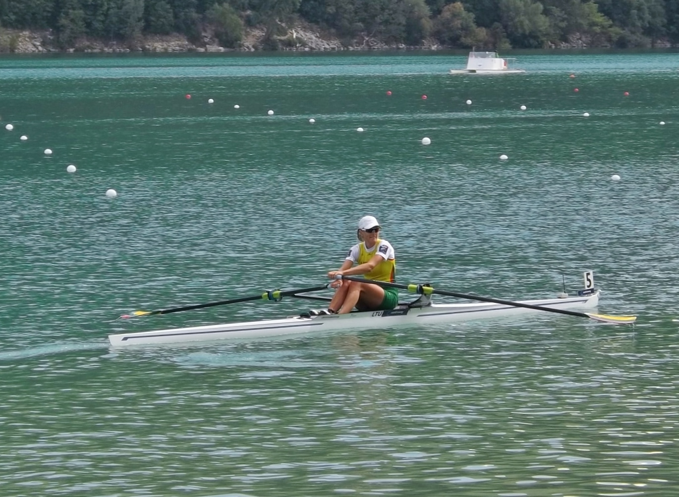 Sight of an athlete from Lithuania, during the 2015 World Rowing Championships taking place on the lac d'Aiguebelette lake, in Savoie, France.